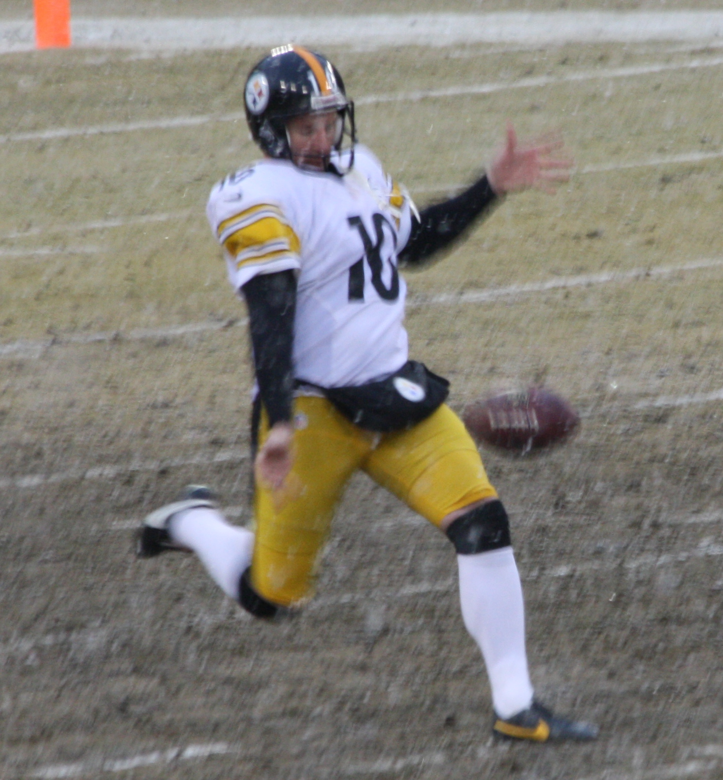 Pittsburgh Steelers punter Mat McBriar punting during warmups.